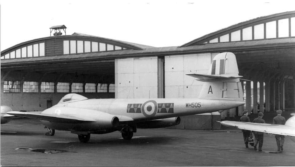 Belfast Truss hangars at RAF Hooton Park, Cheshire, England in September 1952